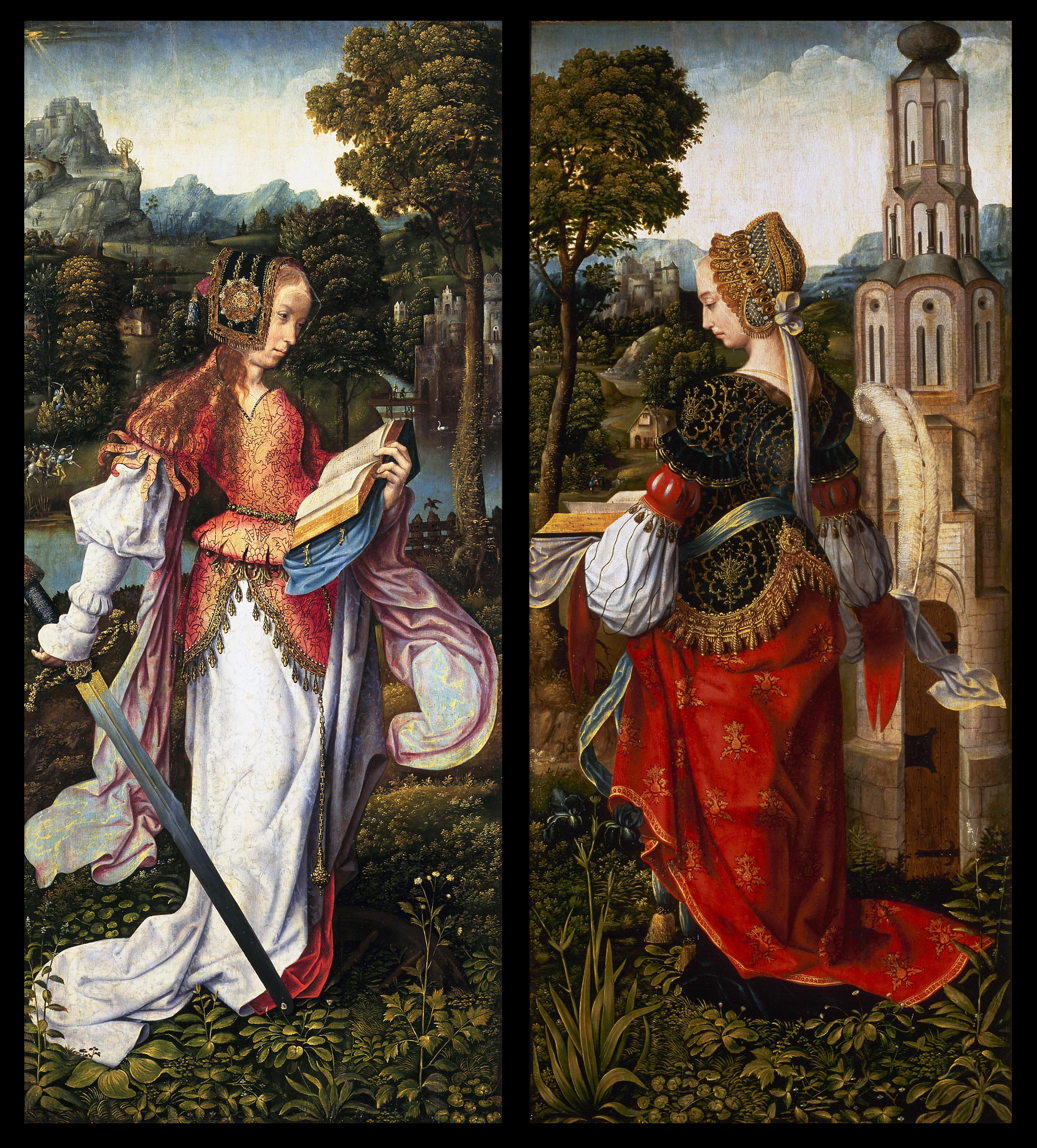 Inner wings of a triptych, the central panel of which is now at the Walker Art Gallery in Liverpool.